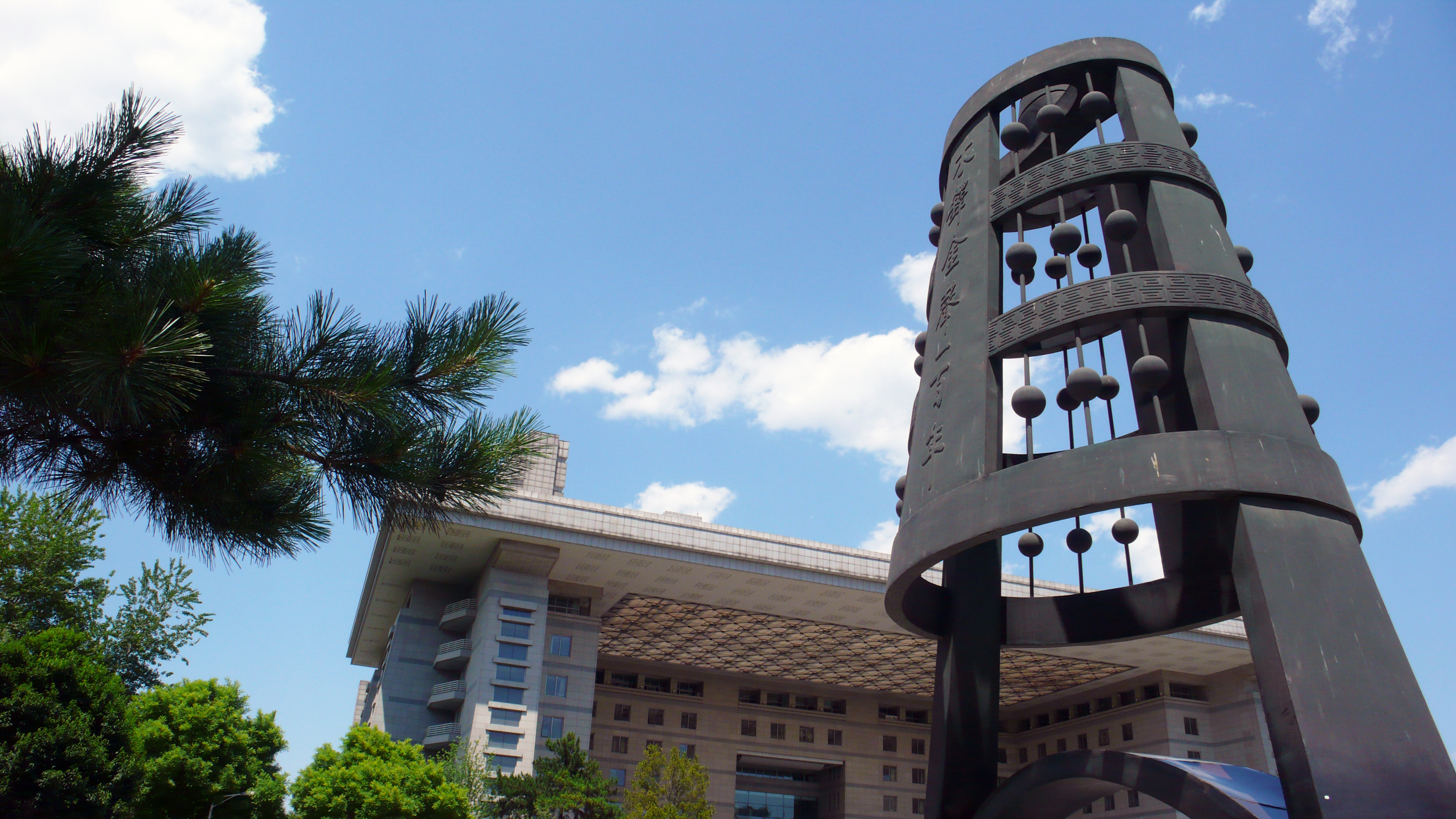 The sculpture of wooden bell, the symbol of BNU.